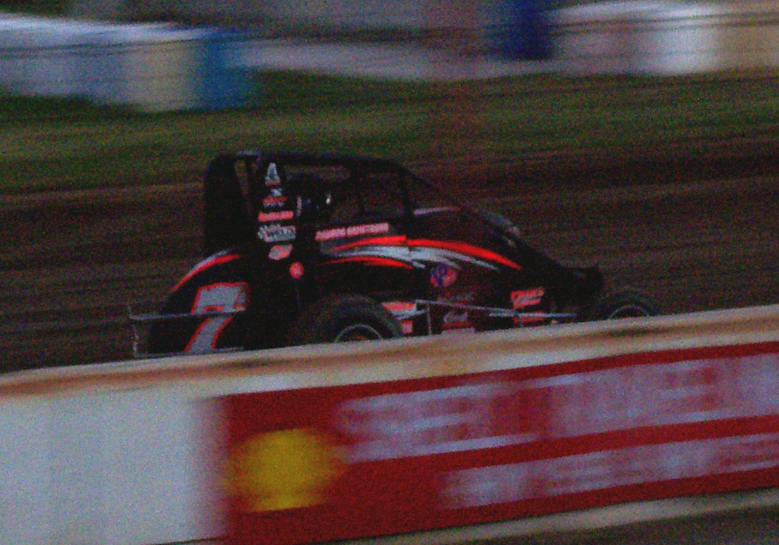 The USAC Midget car of Dakoda Armstrong at the Dodge County (Wisconsin) Fairgrounds.